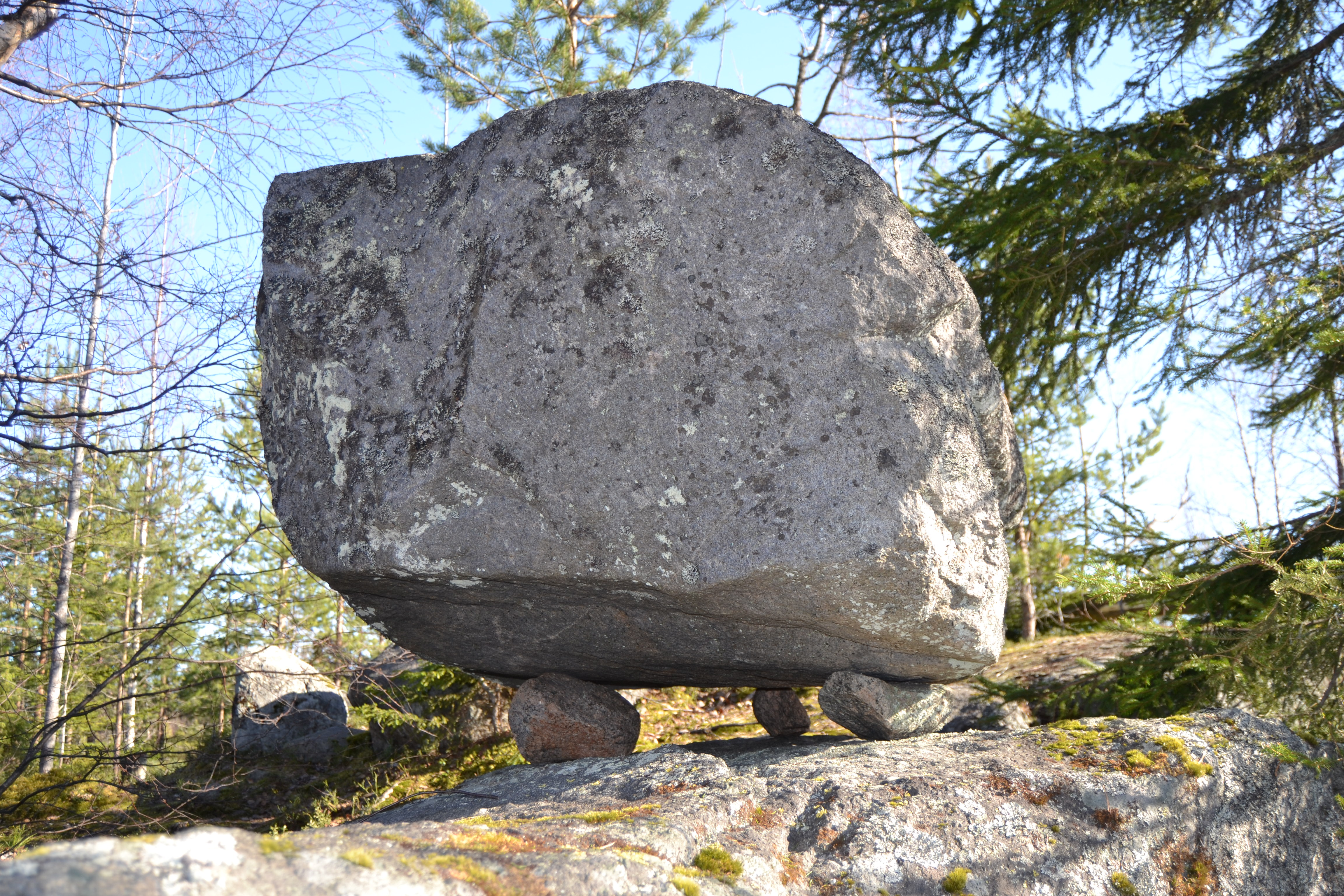 Tapion alttari (Tapio's altar) rock formation in Muuratsalo, Muurame, Finland